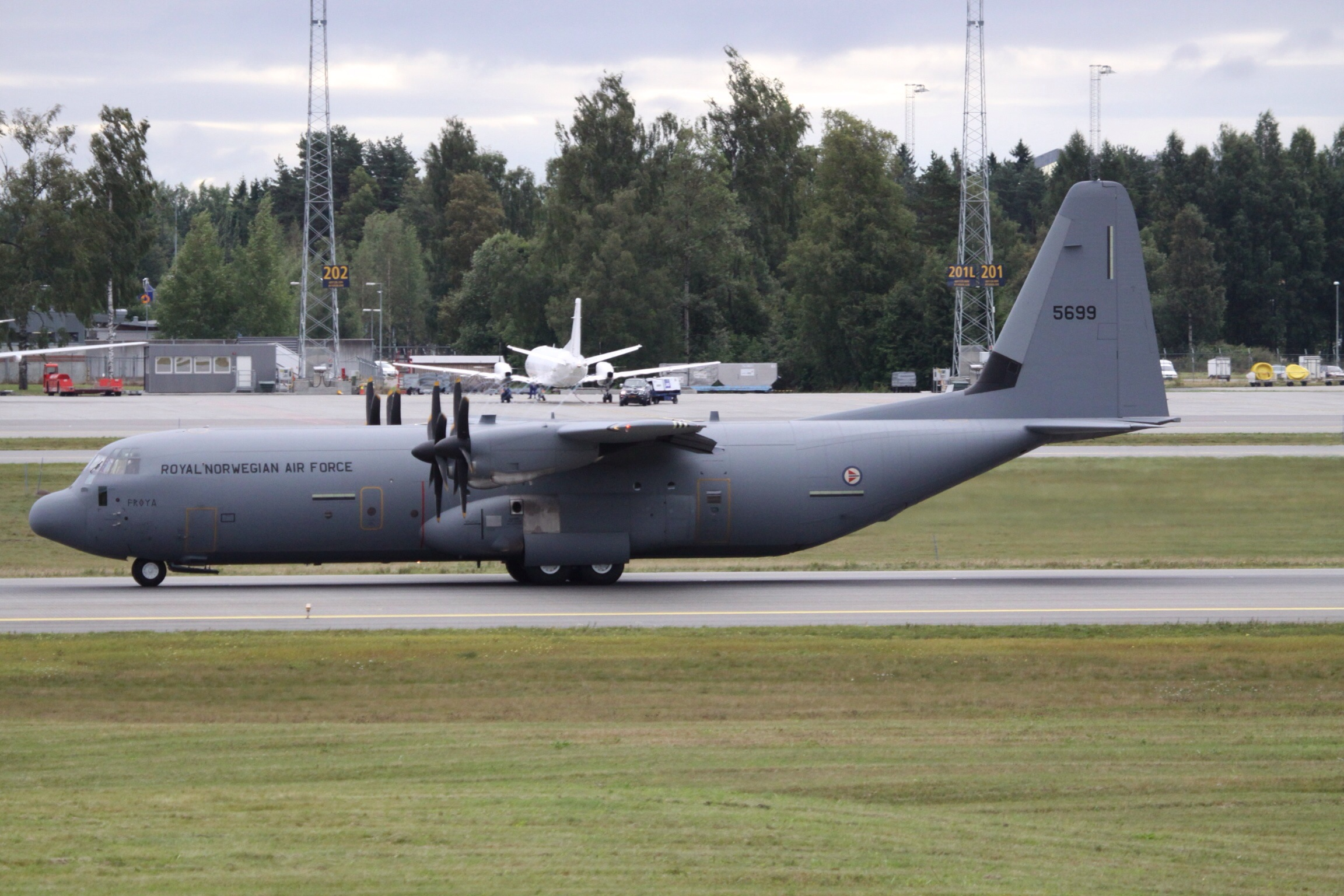 At Oslo Gardermoen